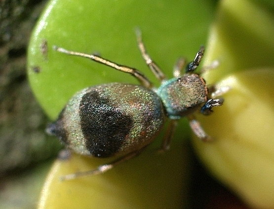 Siler cupreus from Japan.